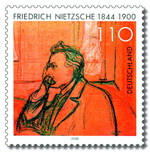 Stamp from Deutsche Post AG from 2000, 100th anniversary of the death of Friedrich Nietzsche